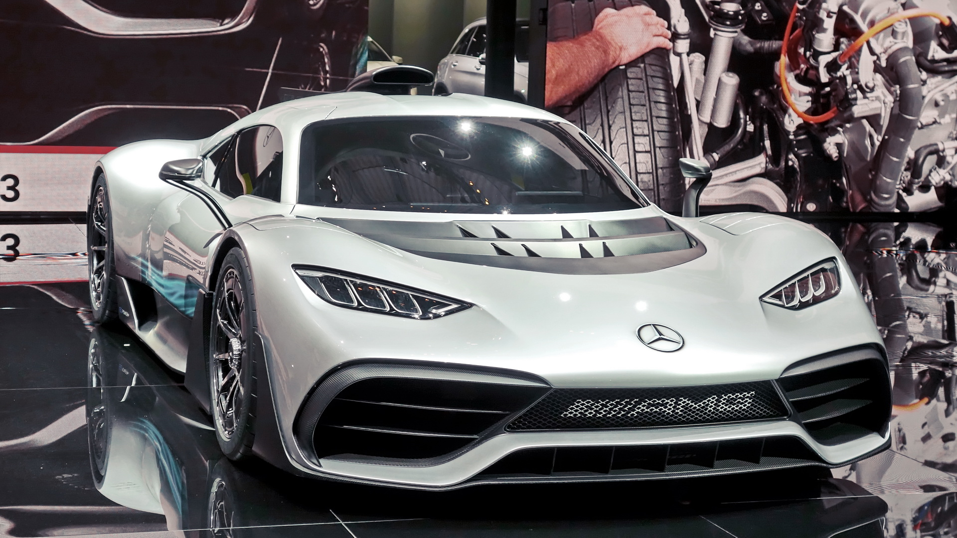 Mercedes-AMG Project One